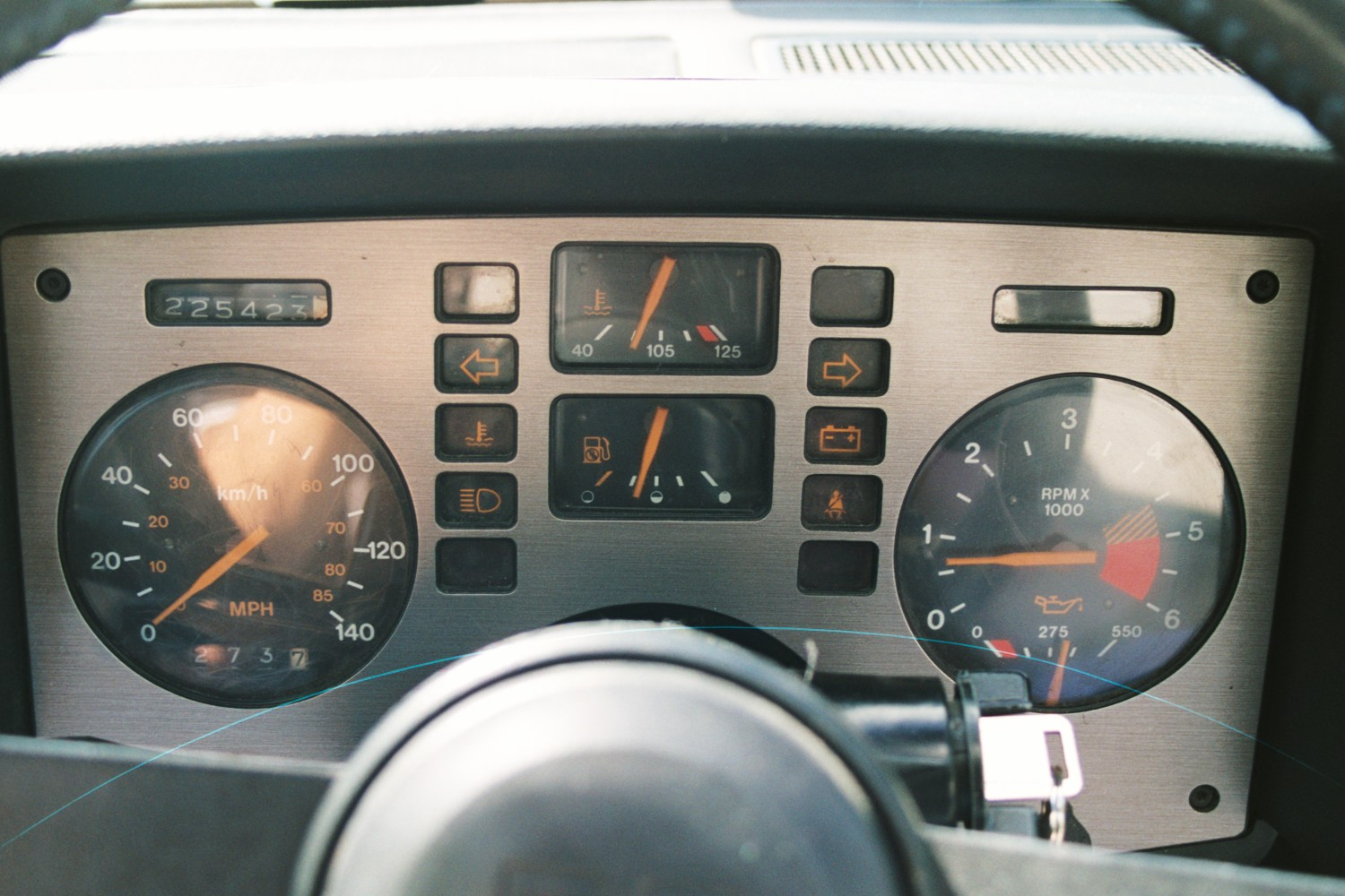 Gauge cluster of a 1985 Pontiac Fiero SC.